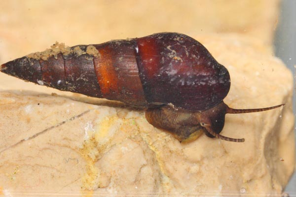 Esperiana daudebarti thermalis, Bükk Mountains near Miskolc, Hungary